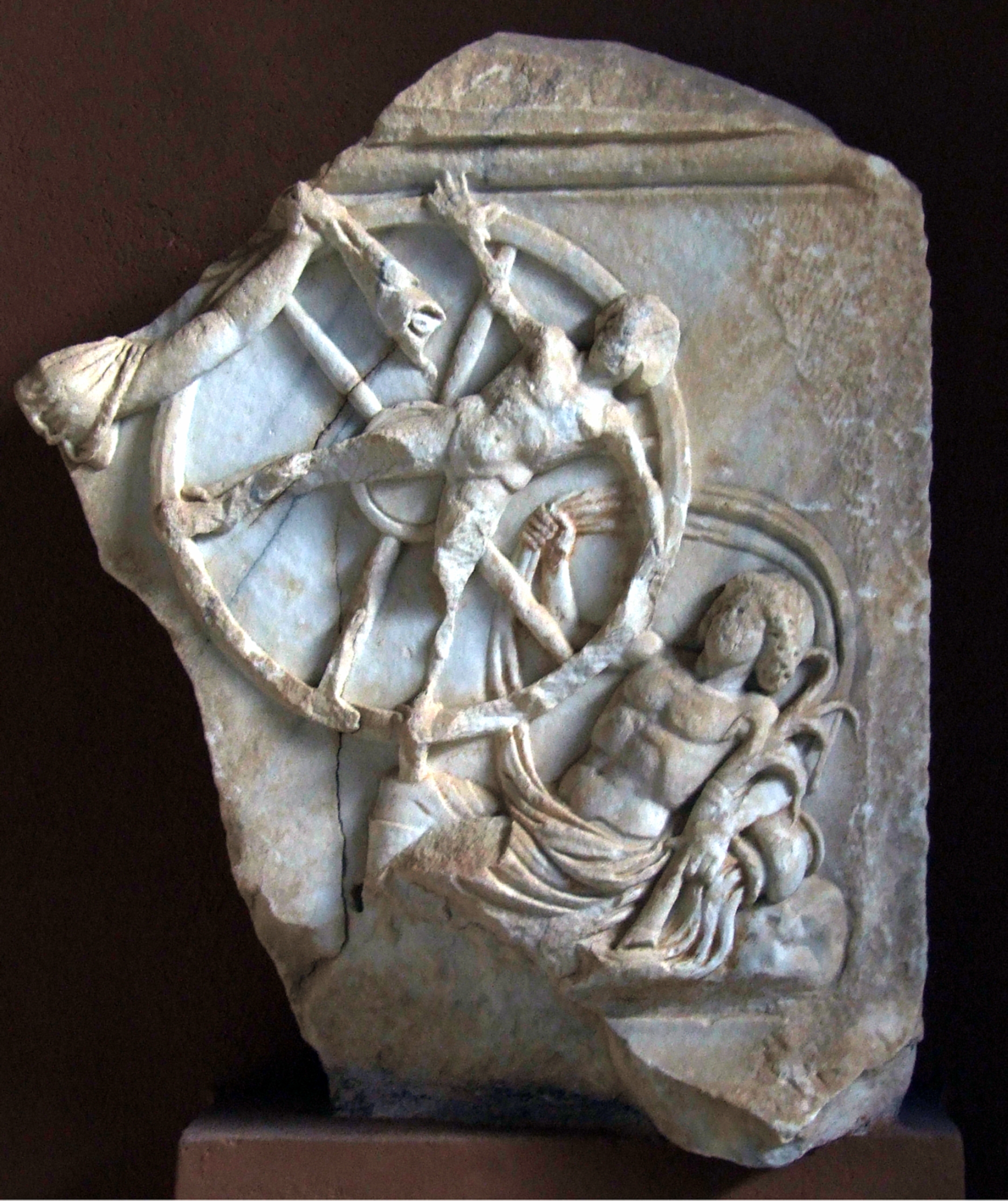 Marble relief with Breaking wheel, 1 or 2 c. AD